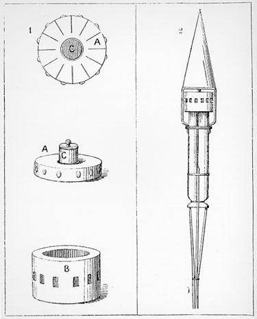 This photo rocket was conceived by the Frenchman Amedee Denisse in 1888. The design is thought to be the first of its kind. On the left is a 12-lens camera which fits beneath the rocket's nose cone. After the film was exposed the camera and rocket would be parachuted back to Earth. It is not known if the rocket was ever actually built. (20k jpg)